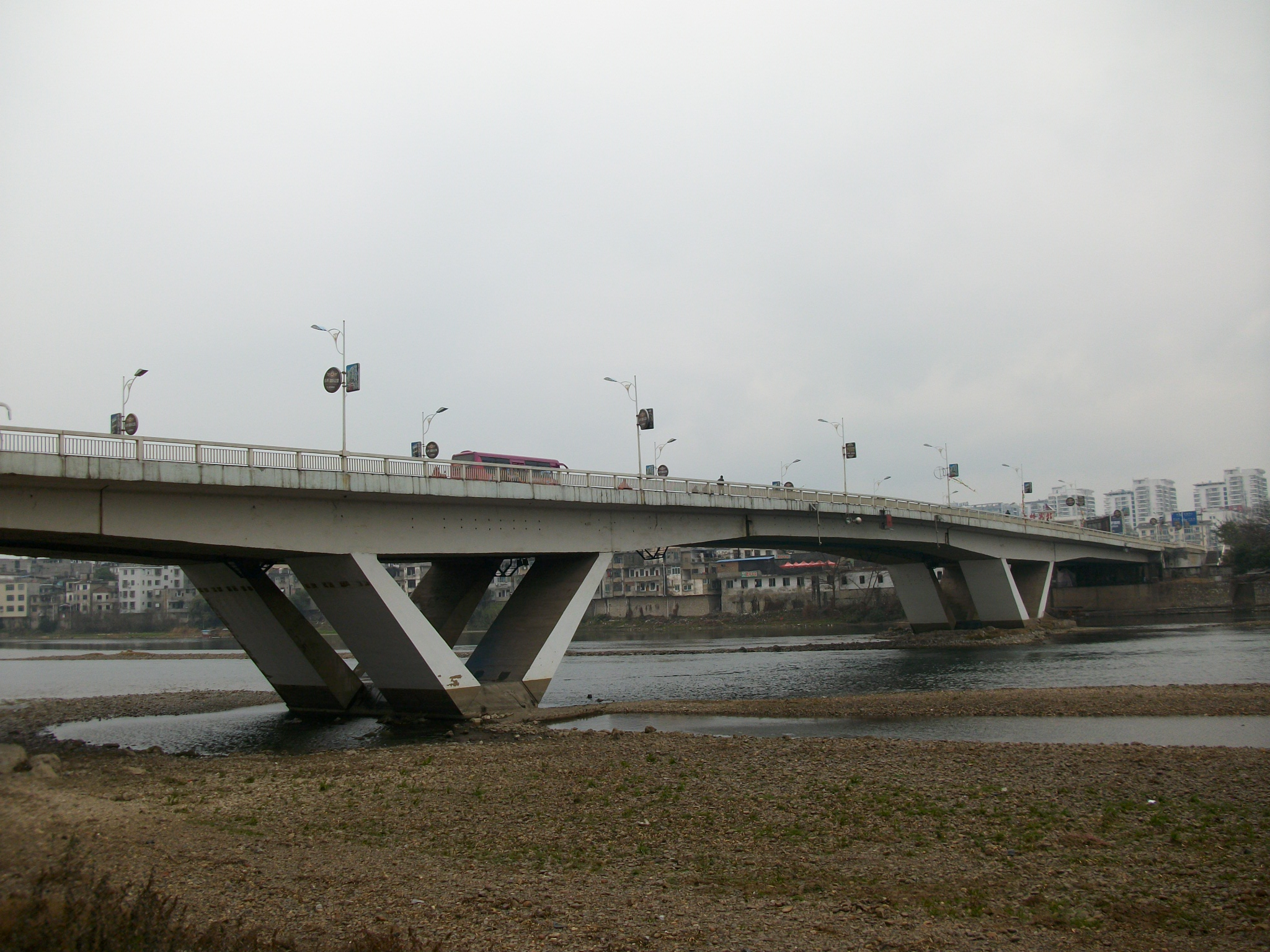 Lijiang Bridge, Guilin.